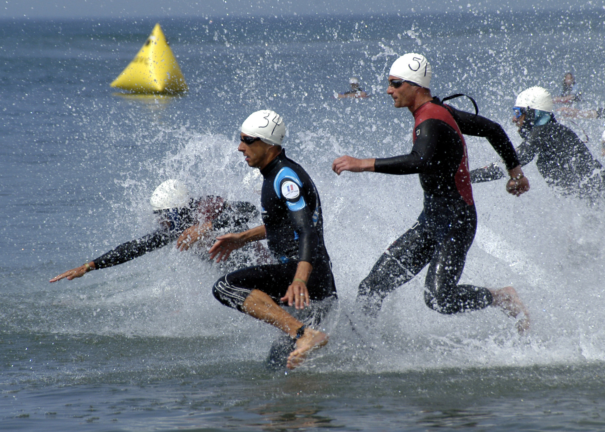 050625-N-7575W-011 Point Mugu, Calif. (June 25, 2005) - Sylvain Dodet, front left, from France, and Bas Borreman, right, from the Netherlands, along with other tri-athletes, dash into the sea to begin their 1.5 kilometer swim during the 12th annual World Military Triathlon. The triathlon held at Naval Base Ventura County, consisted of a 1.5 kilometer swim, 40 kilometer bike ride and a 10 kilometer run, was held June 25, at Naval Base Ventura County. U.S. Navy photo by Photographer’s Mate 2nd Class Jason R. William (RELEASED)